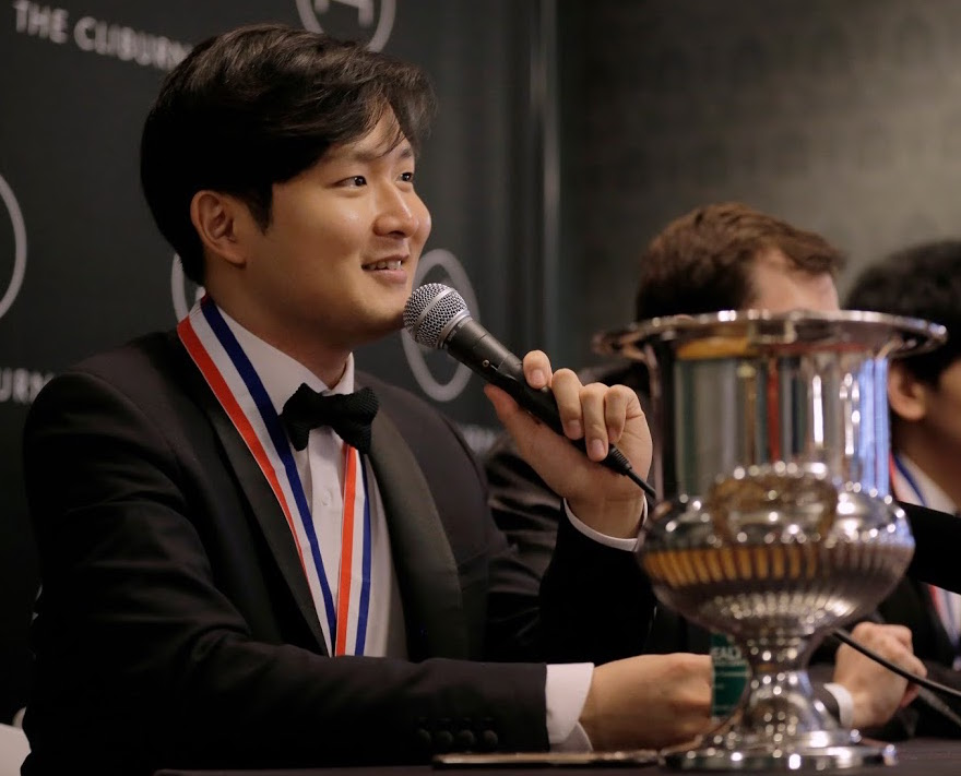 Pianist Yekwon Sunwoo at a press conference on June 10, 2017 following his gold medal win of the 15th Van Cliburn International Piano Competition